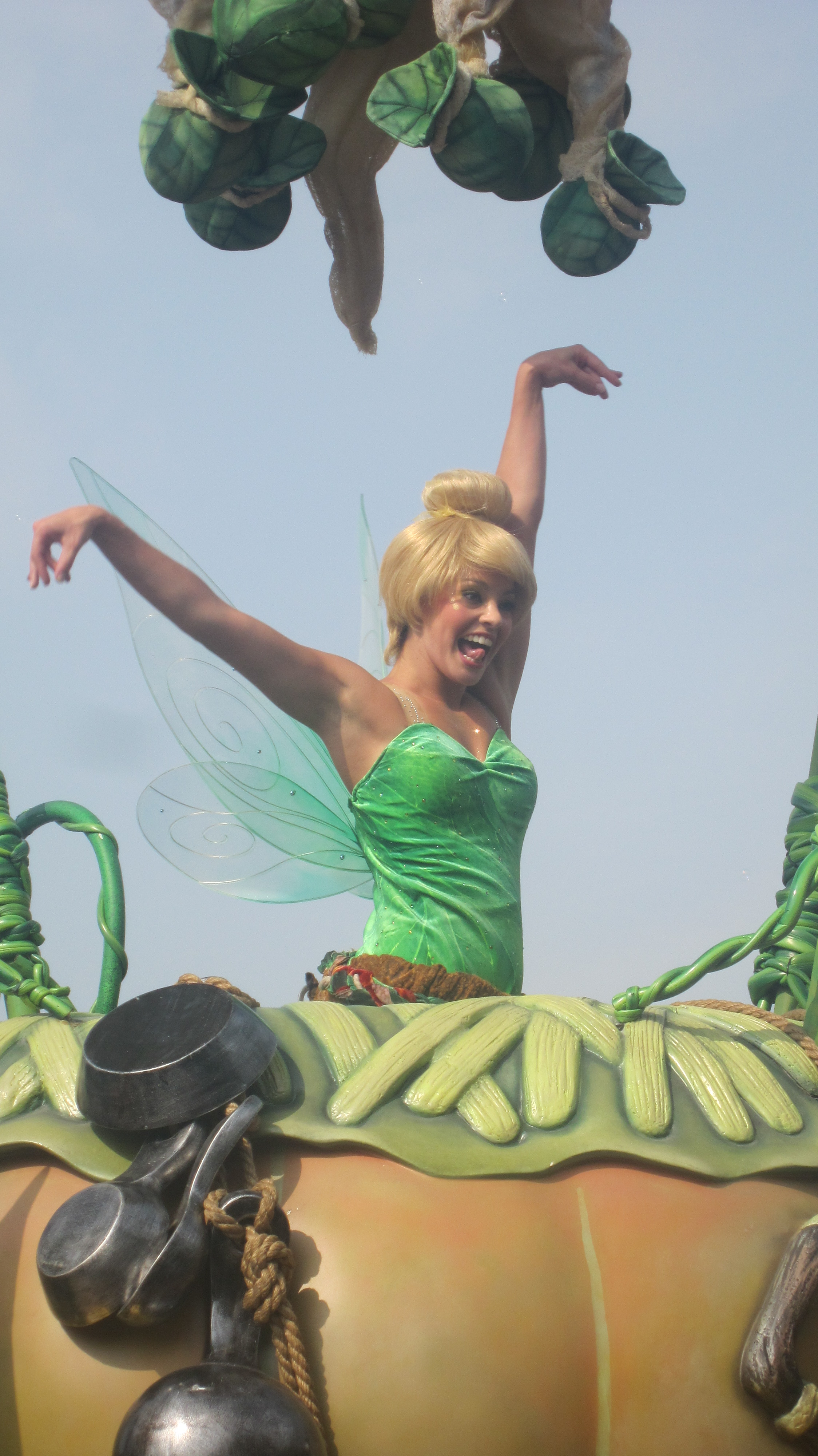 Fairy at Disney Parades, Hong Kong Disneyland